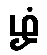 This is the image of a consonant in Tamil alphabet generated by User:Sundar.